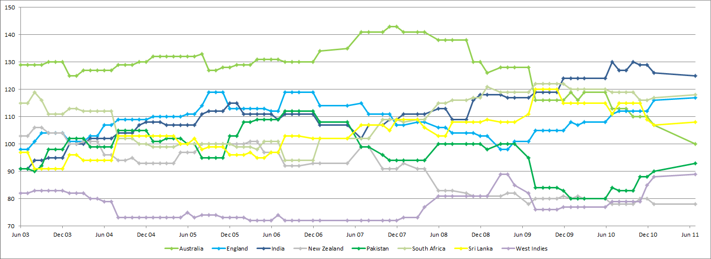 Chart of ICC Test Rankings since June 2003, for the top eight teams only